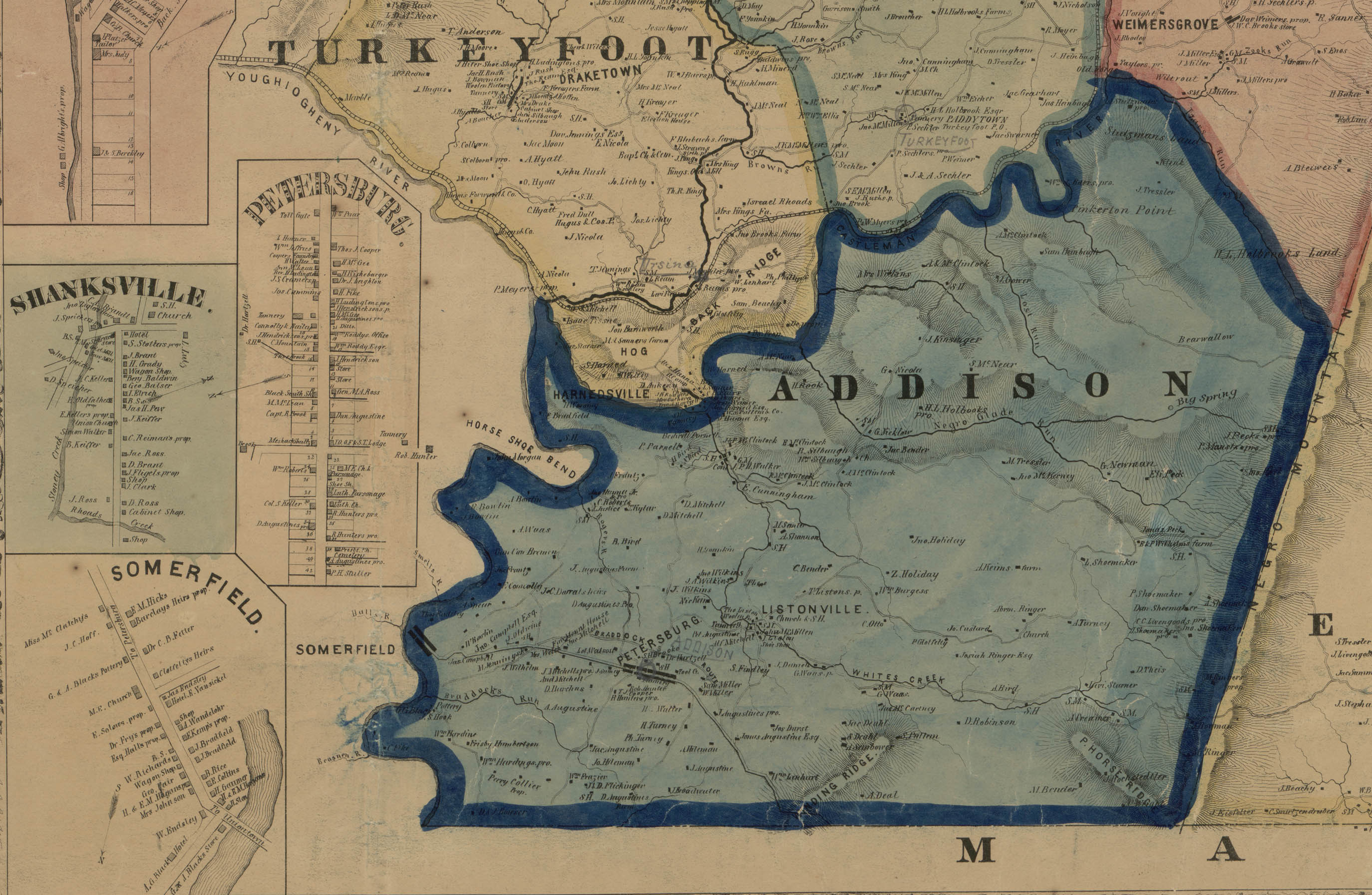 Map of Addison Township taken from 1860 Edward L. Walker map of Somerset County, Pennsylvania, available at the Library of Congress website